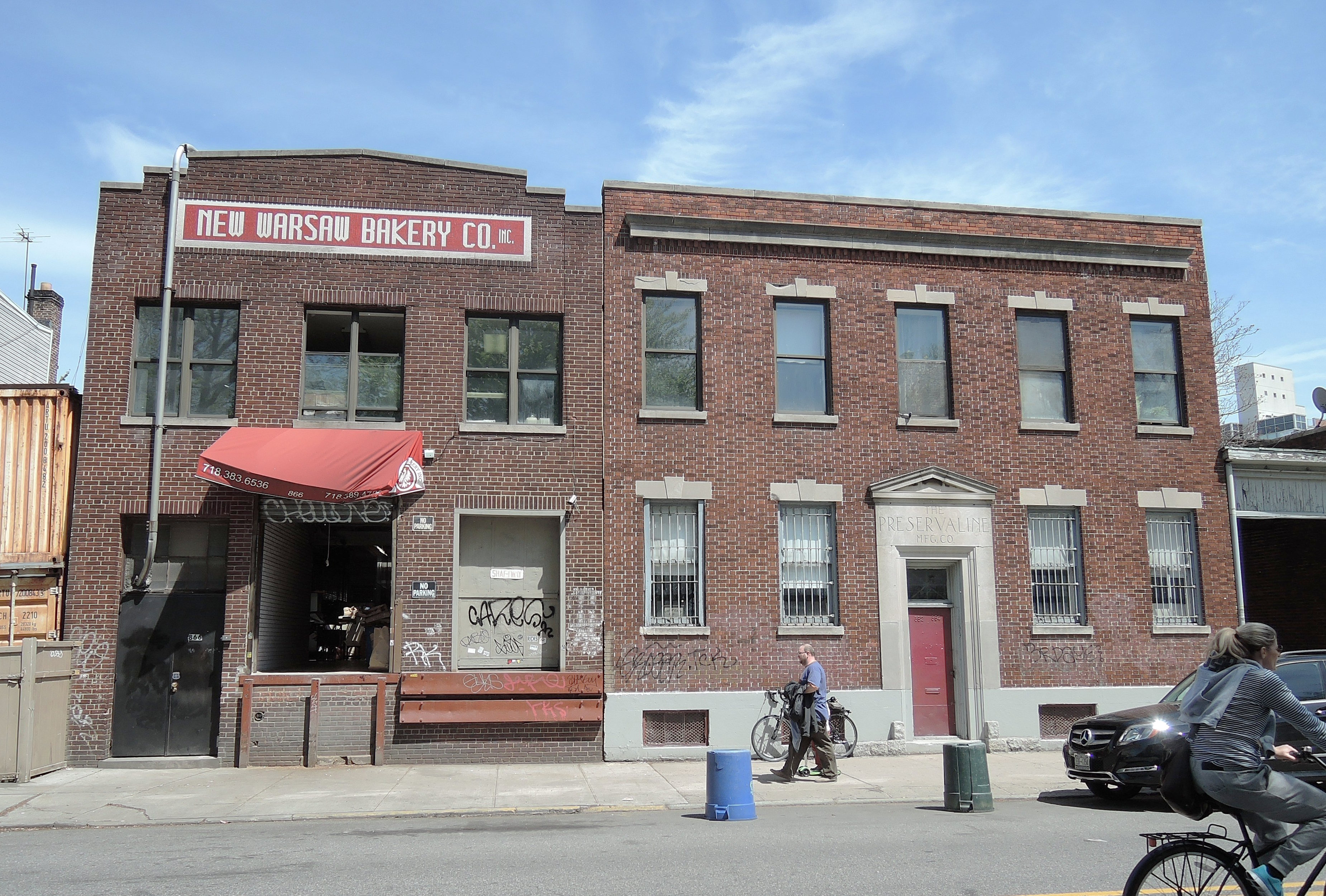 Looking east across Lorimer St at two buildings on a sunny day.